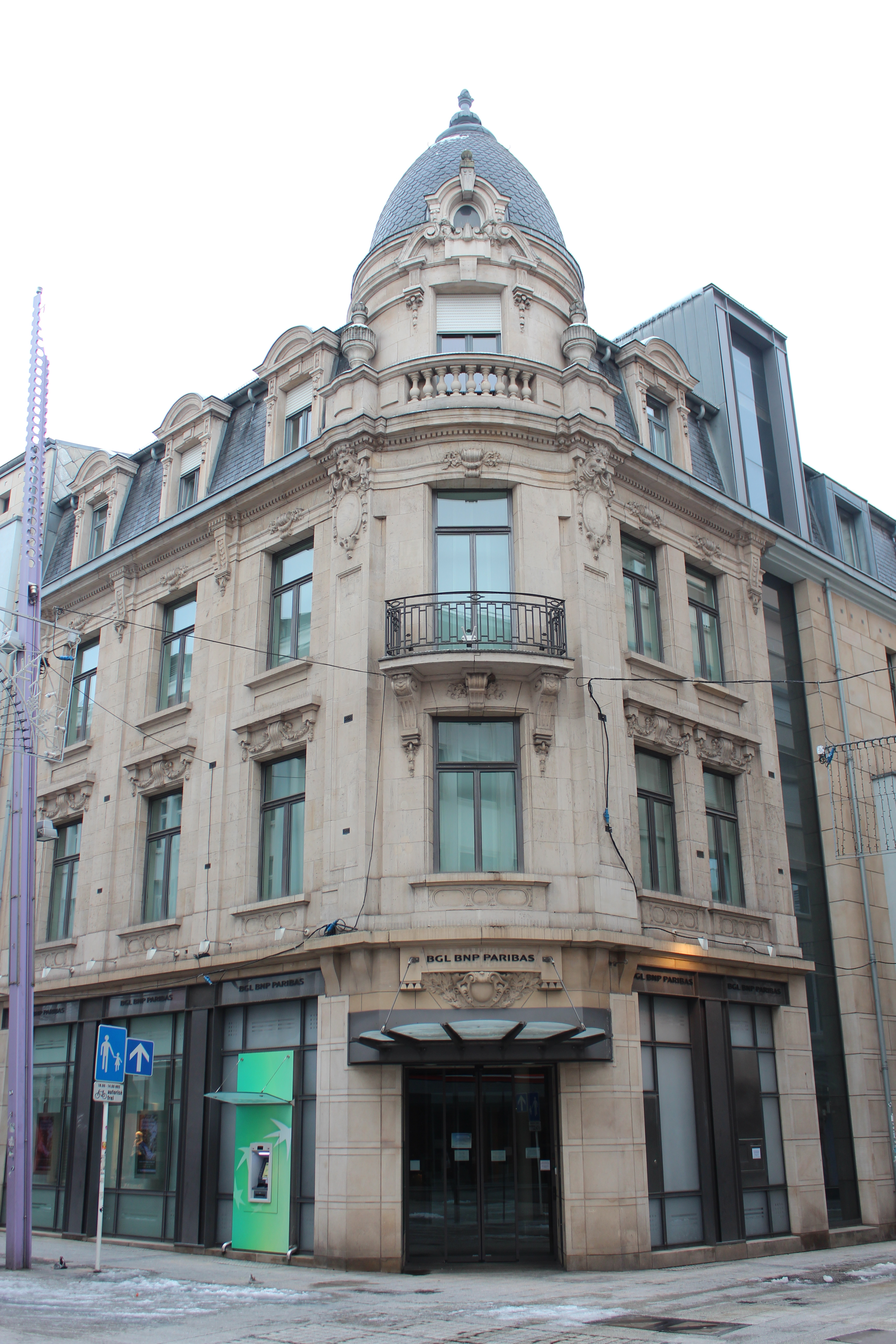 Neo-classical corner building 30 rue de l'Alzette / Avenue de la Gare in Esch-sur-Alzette.